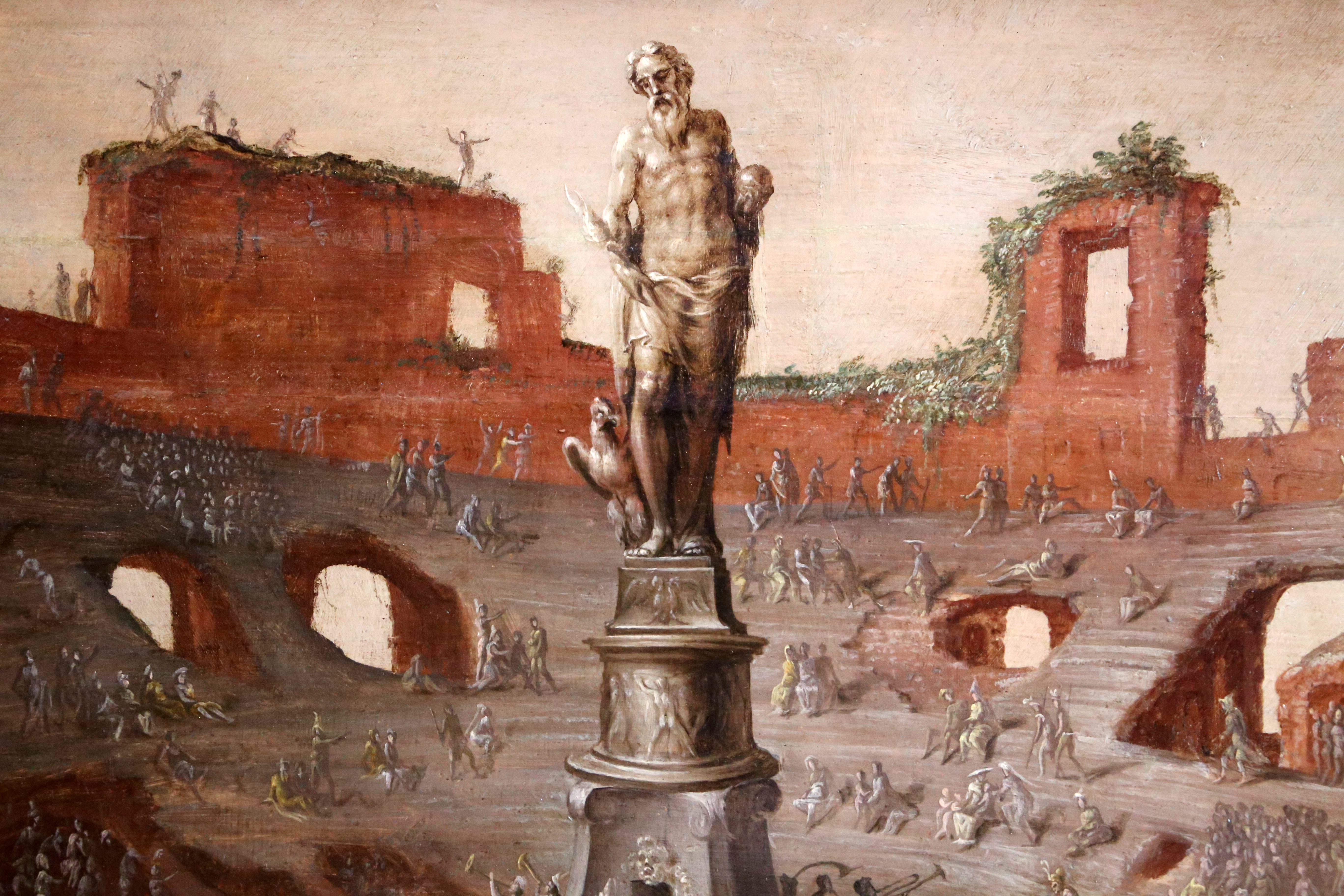 Flemish paintings in the Palais des Beaux-Arts de Lille